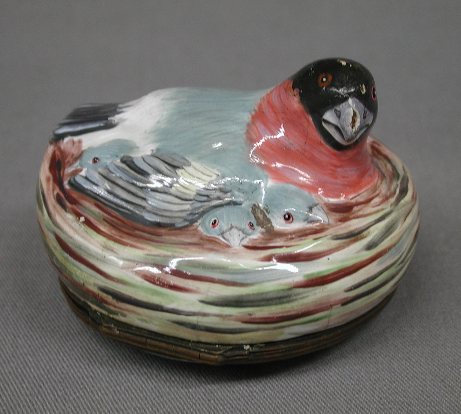 British, Bilston, South Staffordshire; Bonbonnière; Enamels-Painted